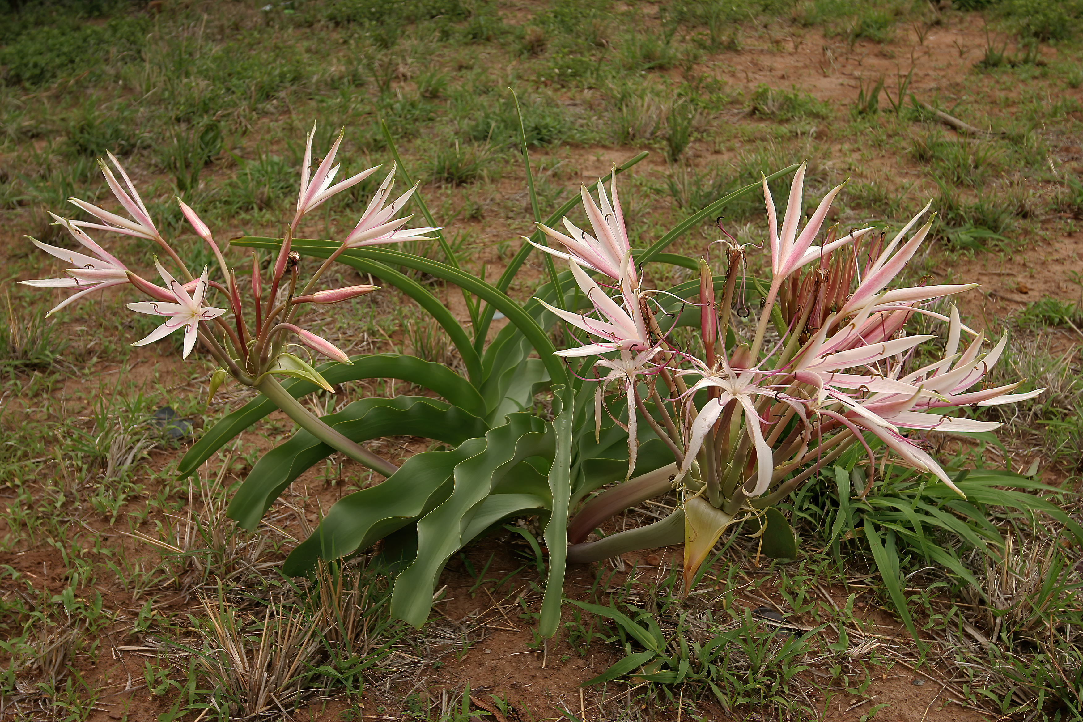 Crinum buphanoides, plant in flower; bushveld between Mookgophong to Makopane, Limpopo, South Africa